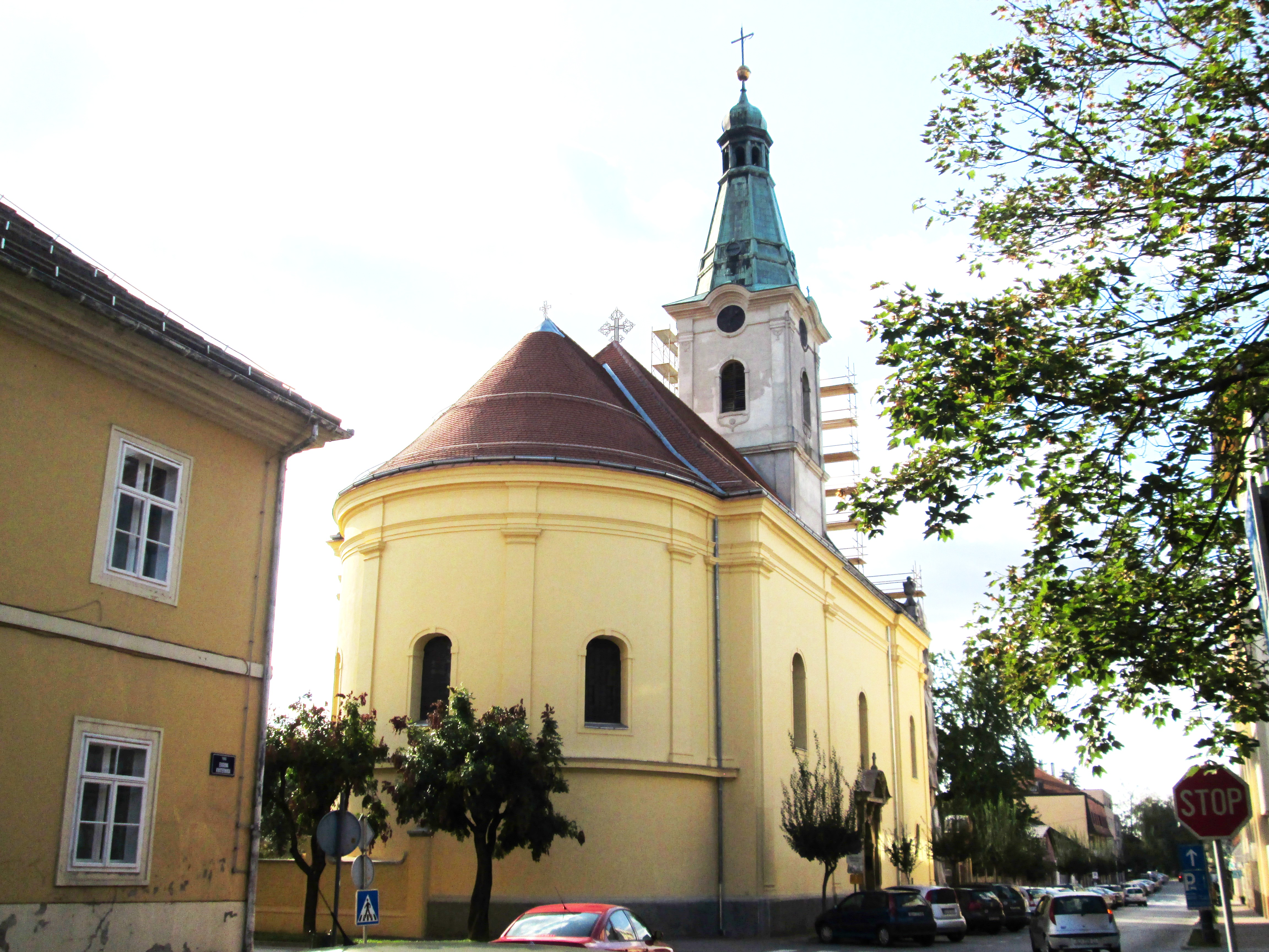 Serbian Ortodox Church of Holy Trinity in Bjelovar, Croatia.This is a a photo of a cultural heritage in Croatia with ID:Z-2447